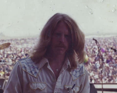 Don at califfornia jam I